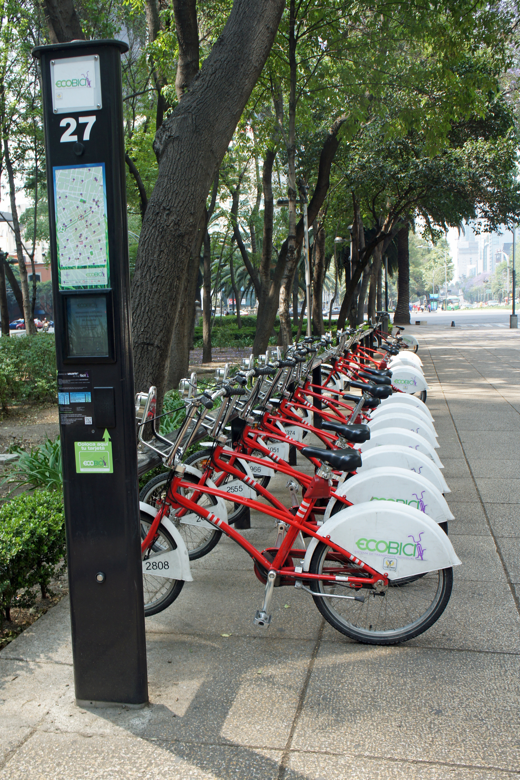 Ecobici docking station 27 at Paseo de la Reforma, Mexico City. The totem at the left is the payment kiosk.